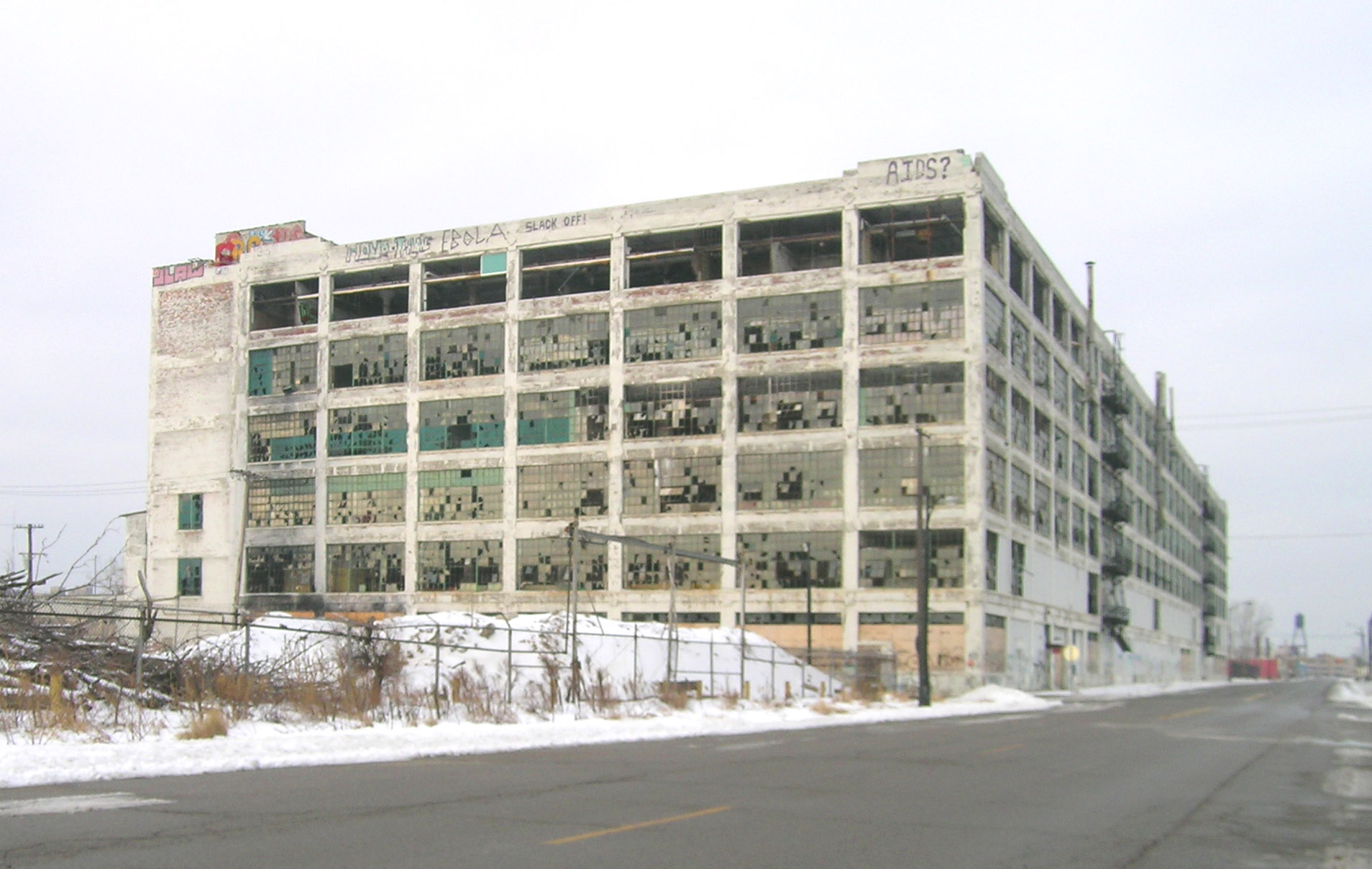 Fisher Body Plant 21, on Piquette Avenue, Detroit, Michigan, United States.